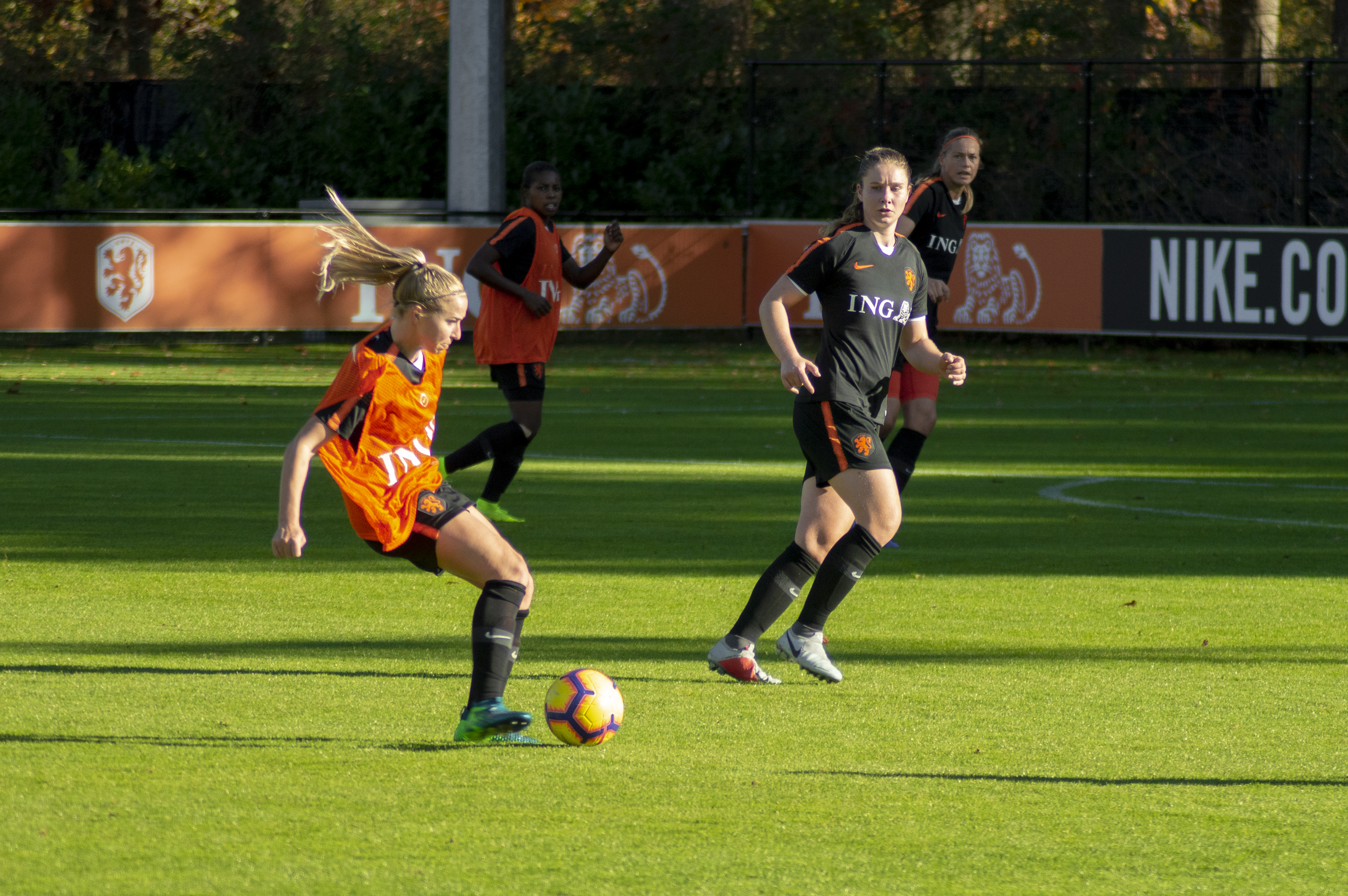 Jackie Groenen & Sisca Folkertsma training with the Netherlands women's national football team on November 6, 2018.